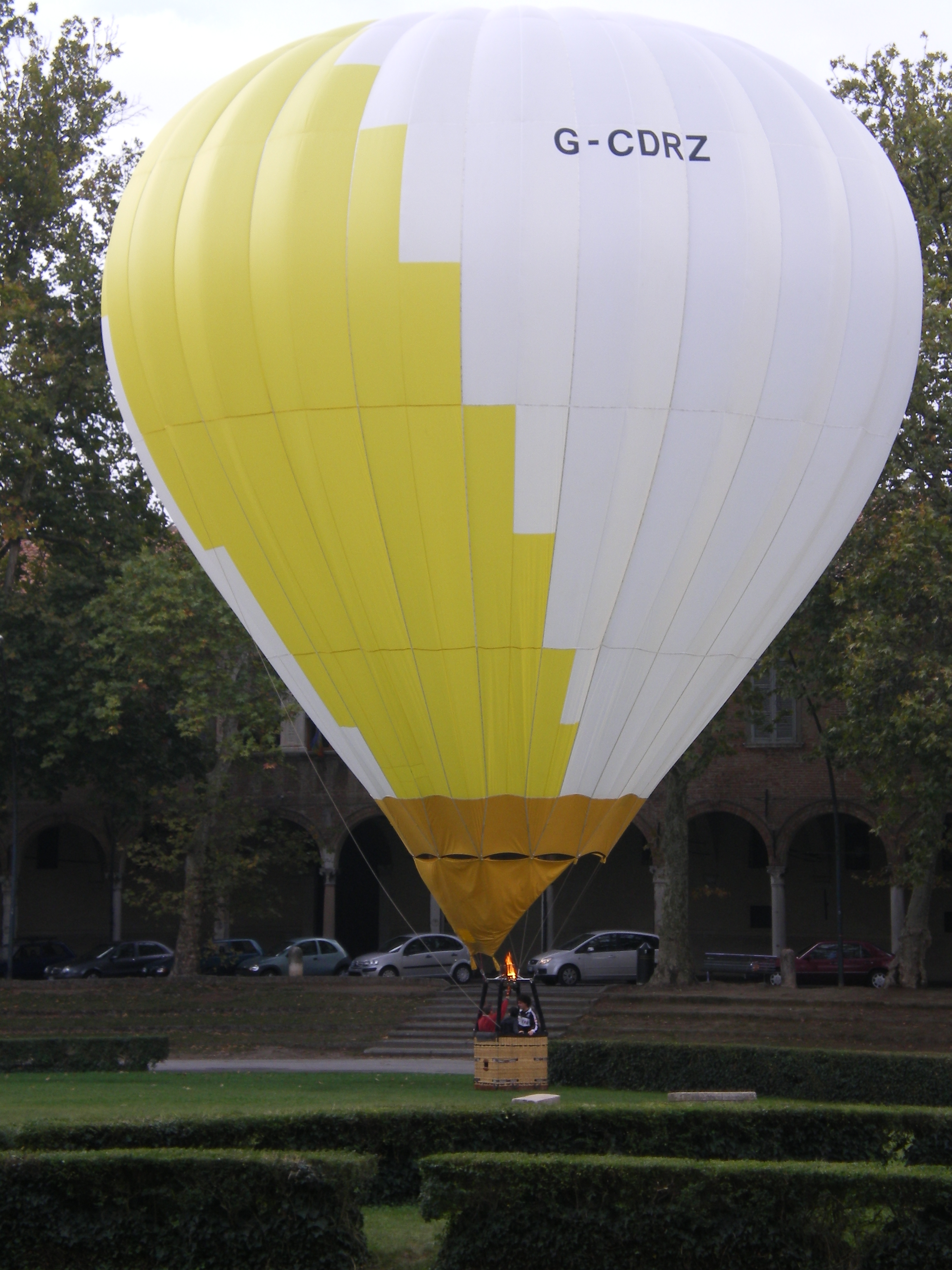 Balloon of the Ferrara Balloons Festival